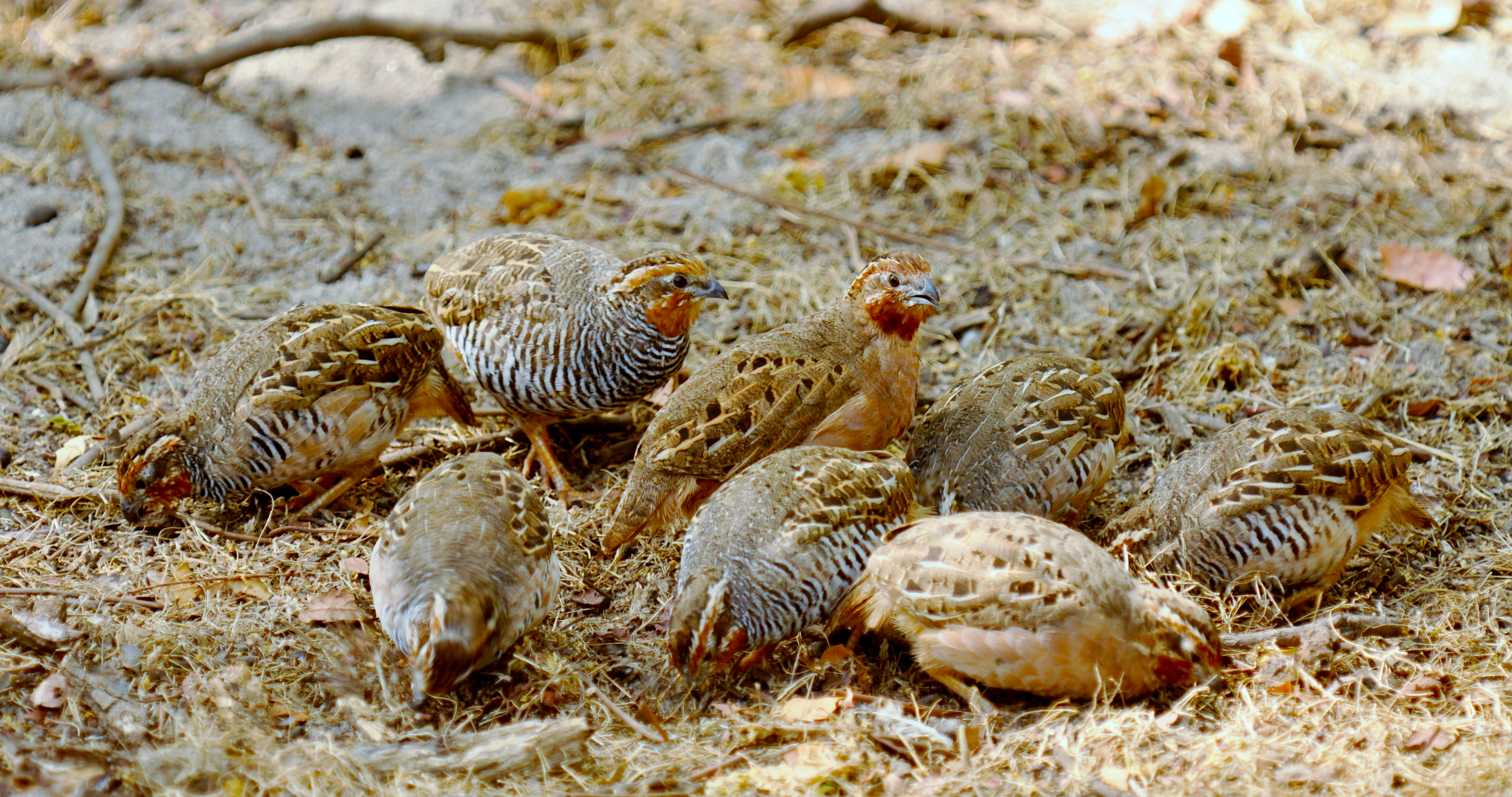 A covey of Jungle Bush-Quail (Perdicula asiatica) in Bandhavgarh National Park, India (female in centre).